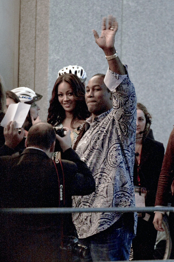 The former heavyweight boxer at the premiere of "Hereafter", directed by Clint Eastwood, during the Toronto International Film Festival, 2010. (original text)